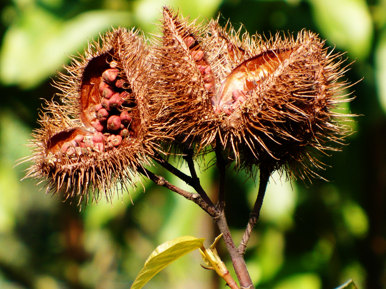 Annato pods, still attached to the tree, showing exposed seeds